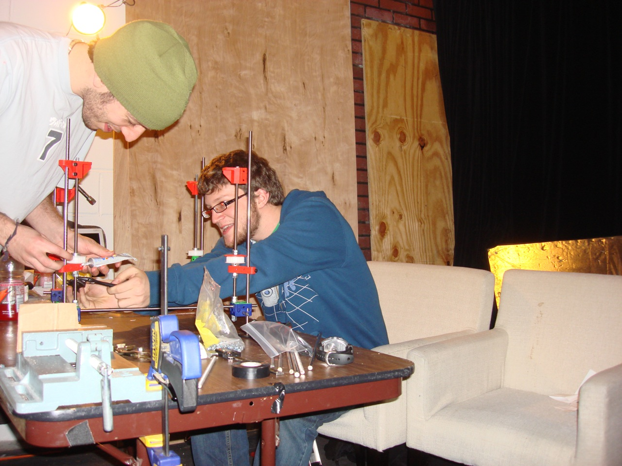 Building a Reprap